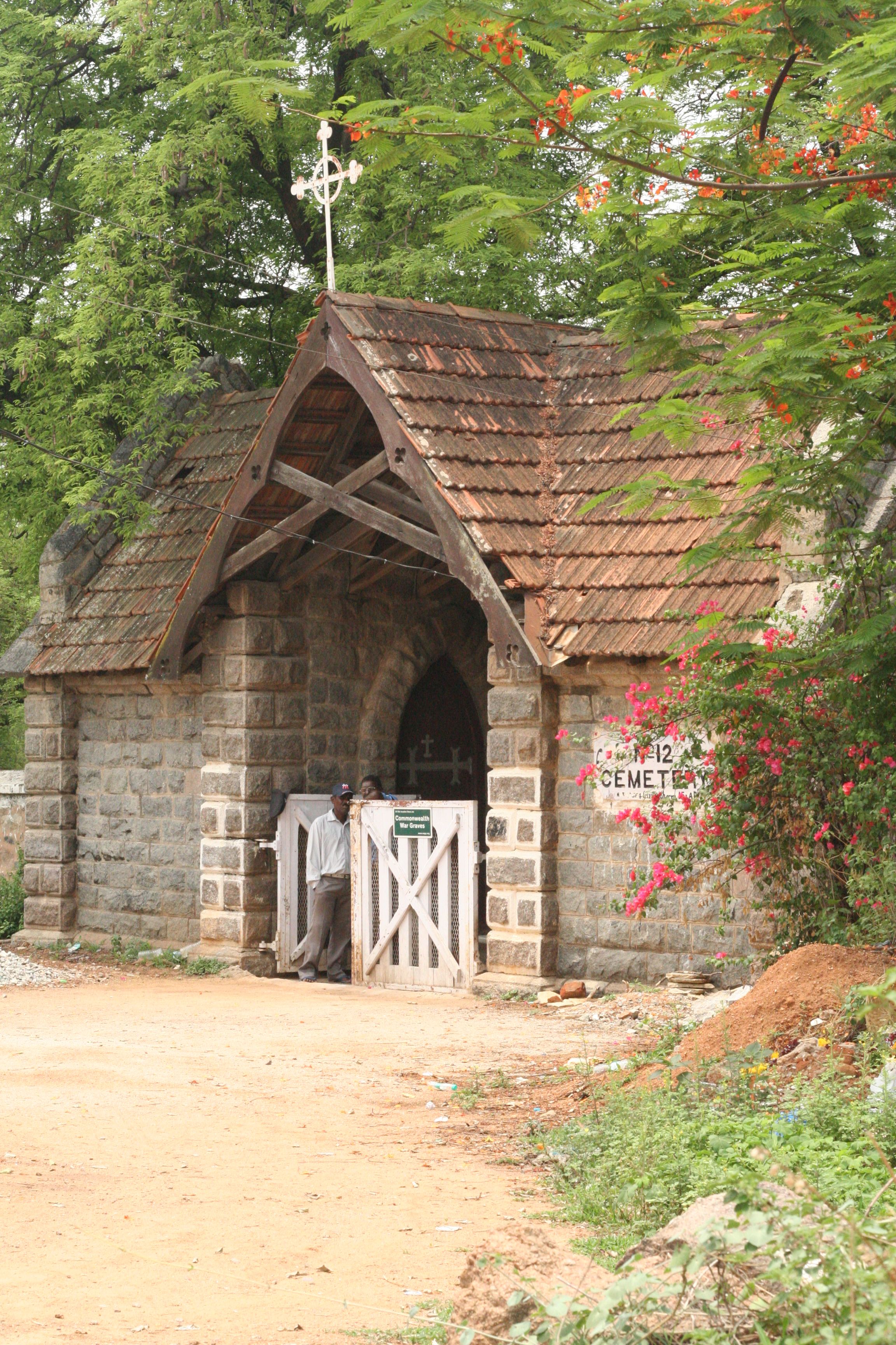 Commonwealth graves